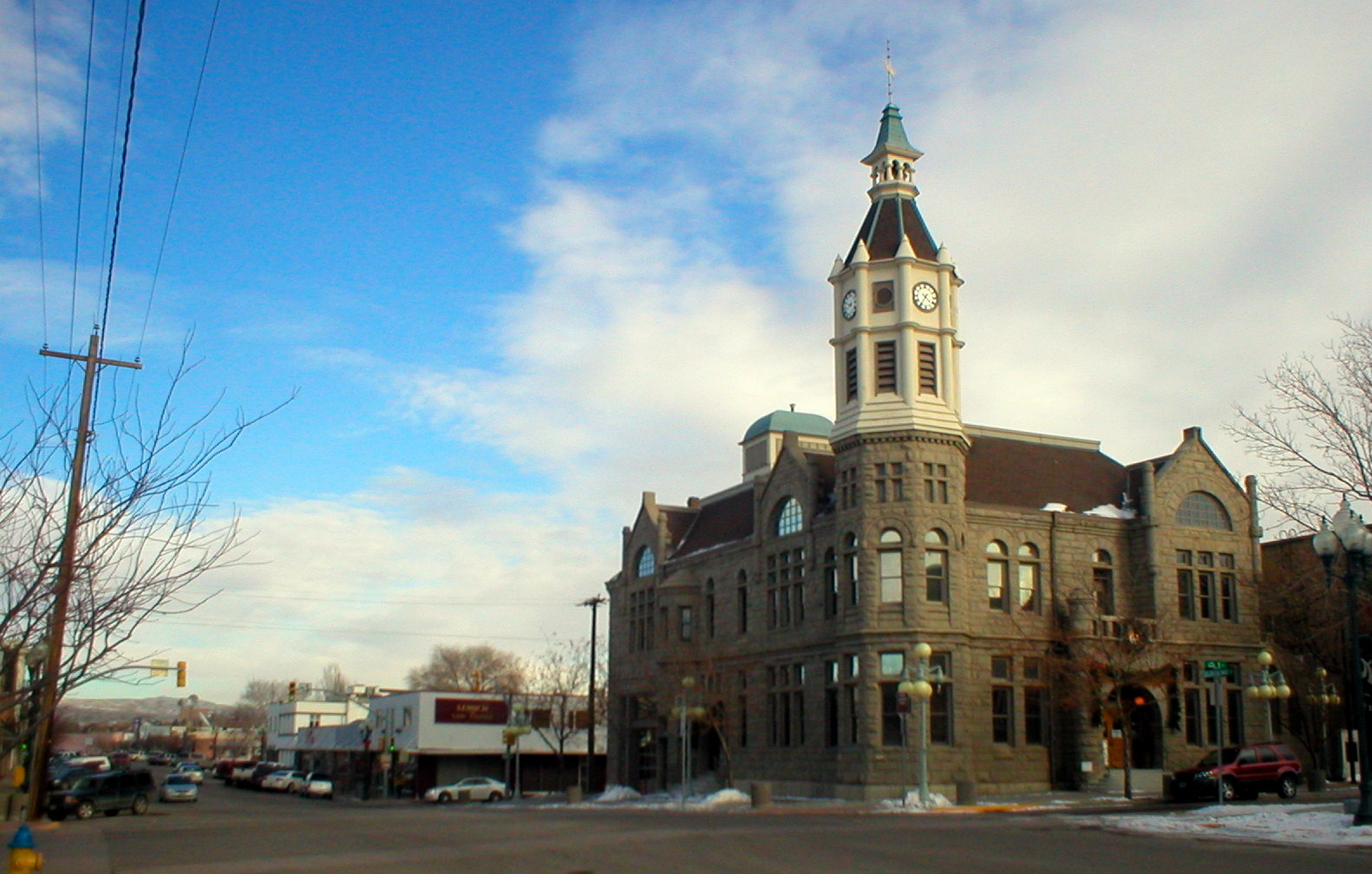 Historic downtown Rock Springs in 2007.